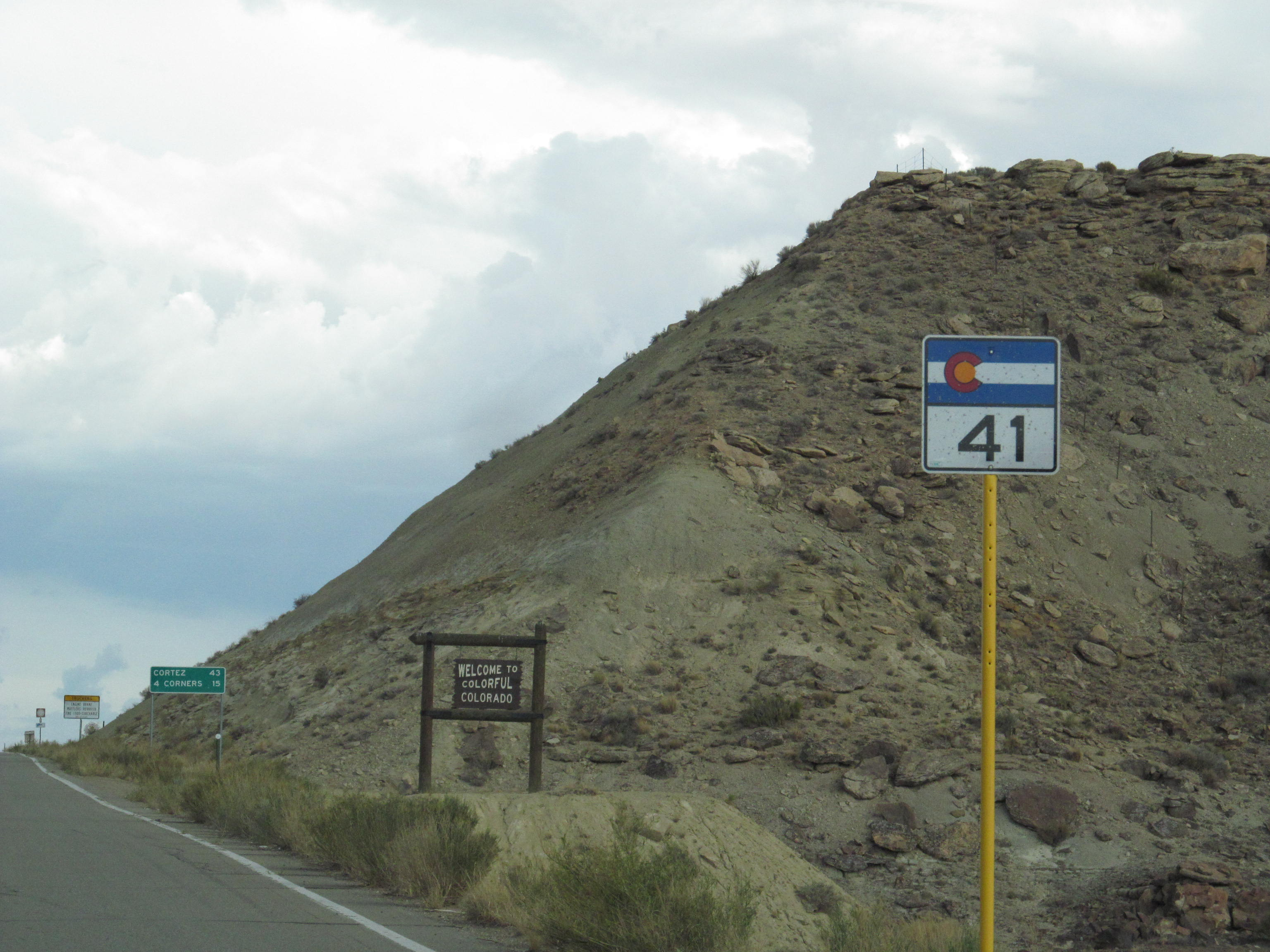 Colorado State Highway 41 at its western terminus.